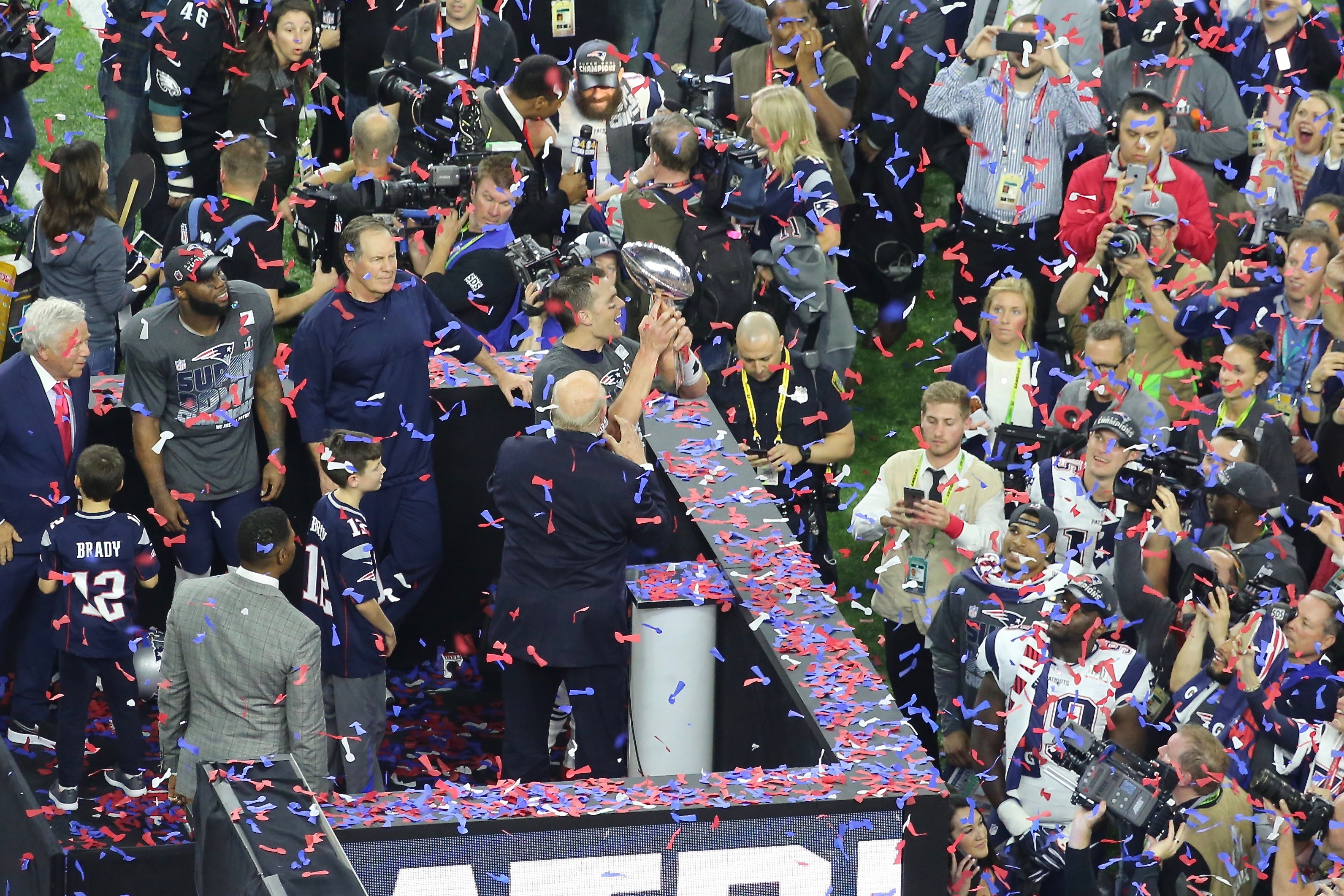 Patriots quarterback Tom Brady, center, holds up Vince Lombardi trophy after defeating the Atlanta Falcons in Superbowl 51.